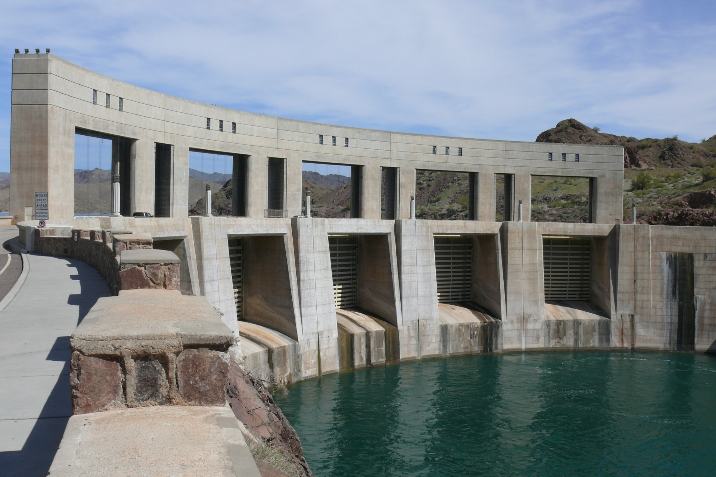 Downriver side of Parker Dam. View from California side of exiting Colorado River.